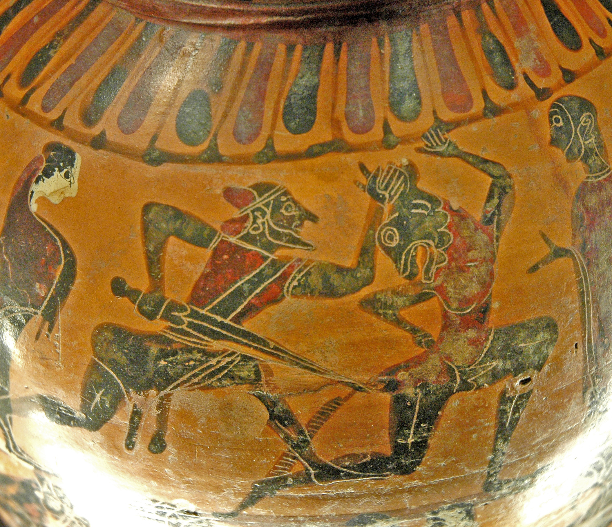 Theseus and the Minotaur. Detail from an Attic black-figure amphora, ca. 575 BC–550 BC.